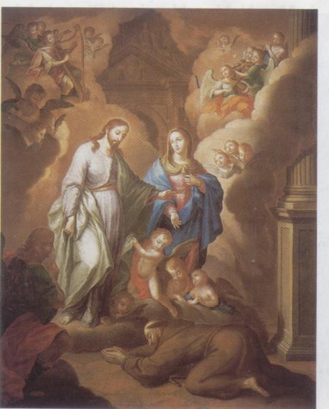 "Saint Francis," by Puerto Rican painter José Campeche.